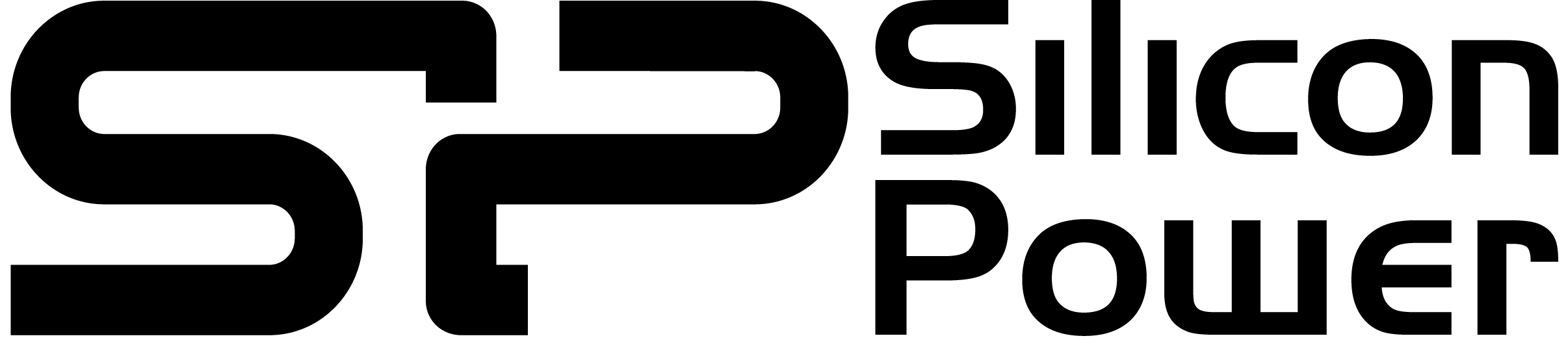 Silicon Power logo since 2011.